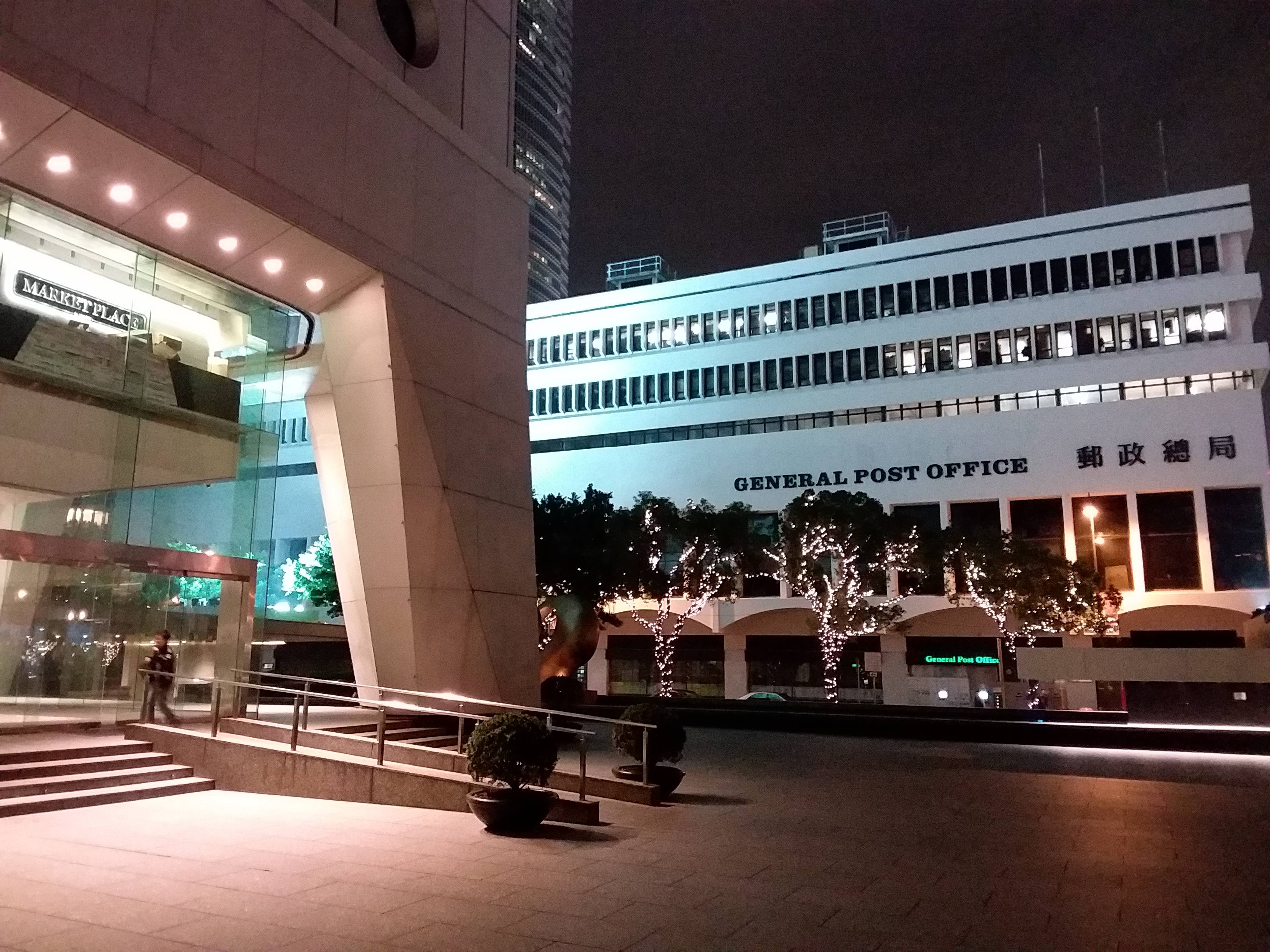 HK 中環 Central 怡和大厦 Jardine House lift lobby interior in January 2019